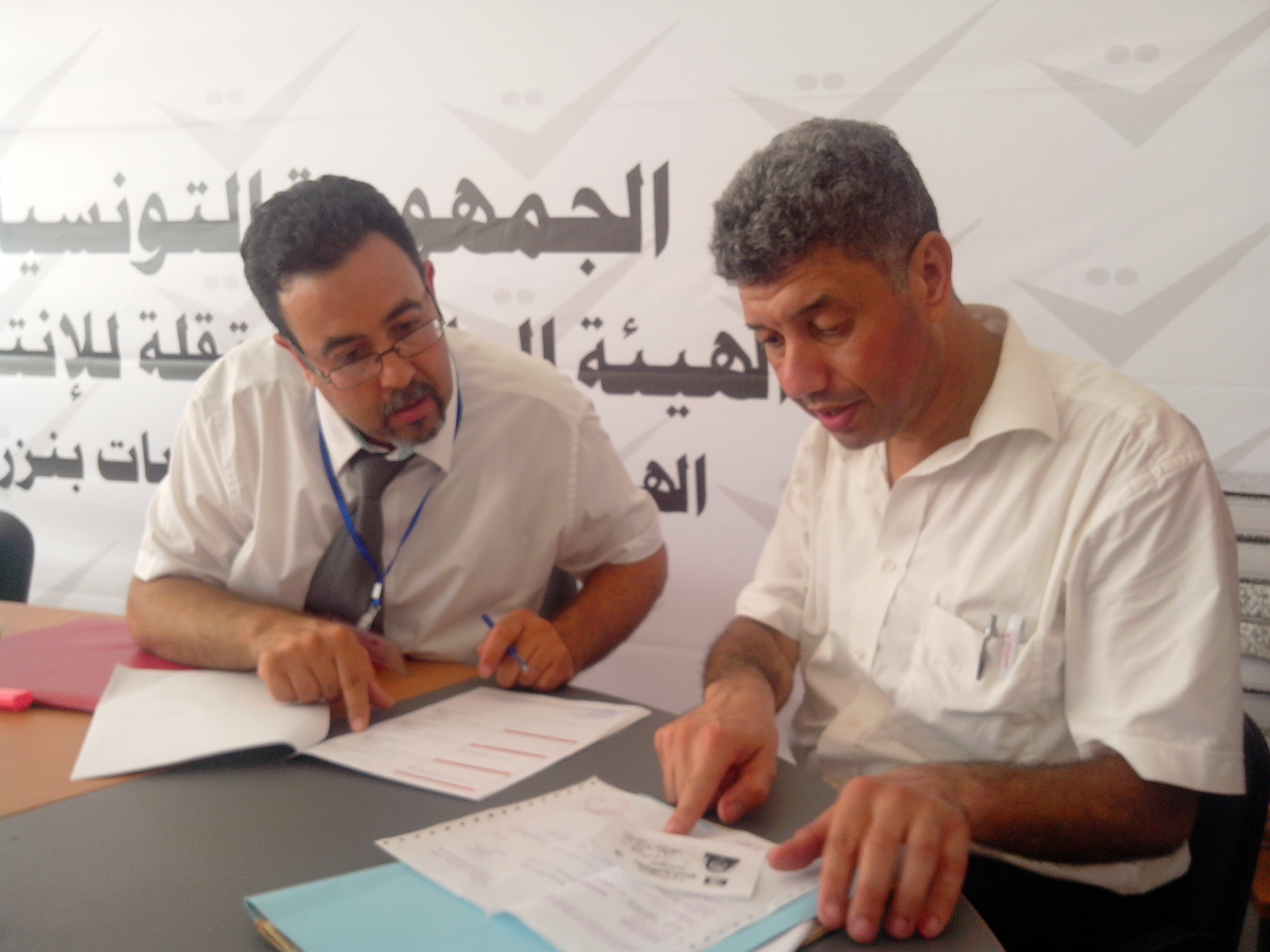 Mourad Amdouni went on 29 08 2014 to ISIE Bizerte to presente his list nomination for the legislative election